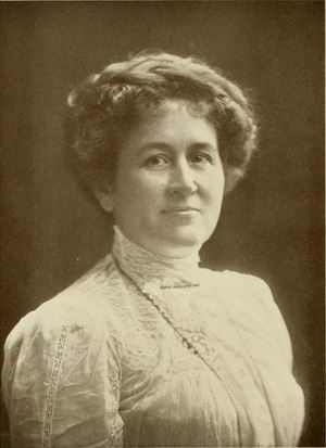 Adeline Palmier Wagoner, Kajiwara Photo, Johnson, Anne (André) "Mrs. Charles P. Johnson", 1871-. Notable women of St. Louis, 1914; (Kindle Location 4402). [St. Louis, Woodward.]